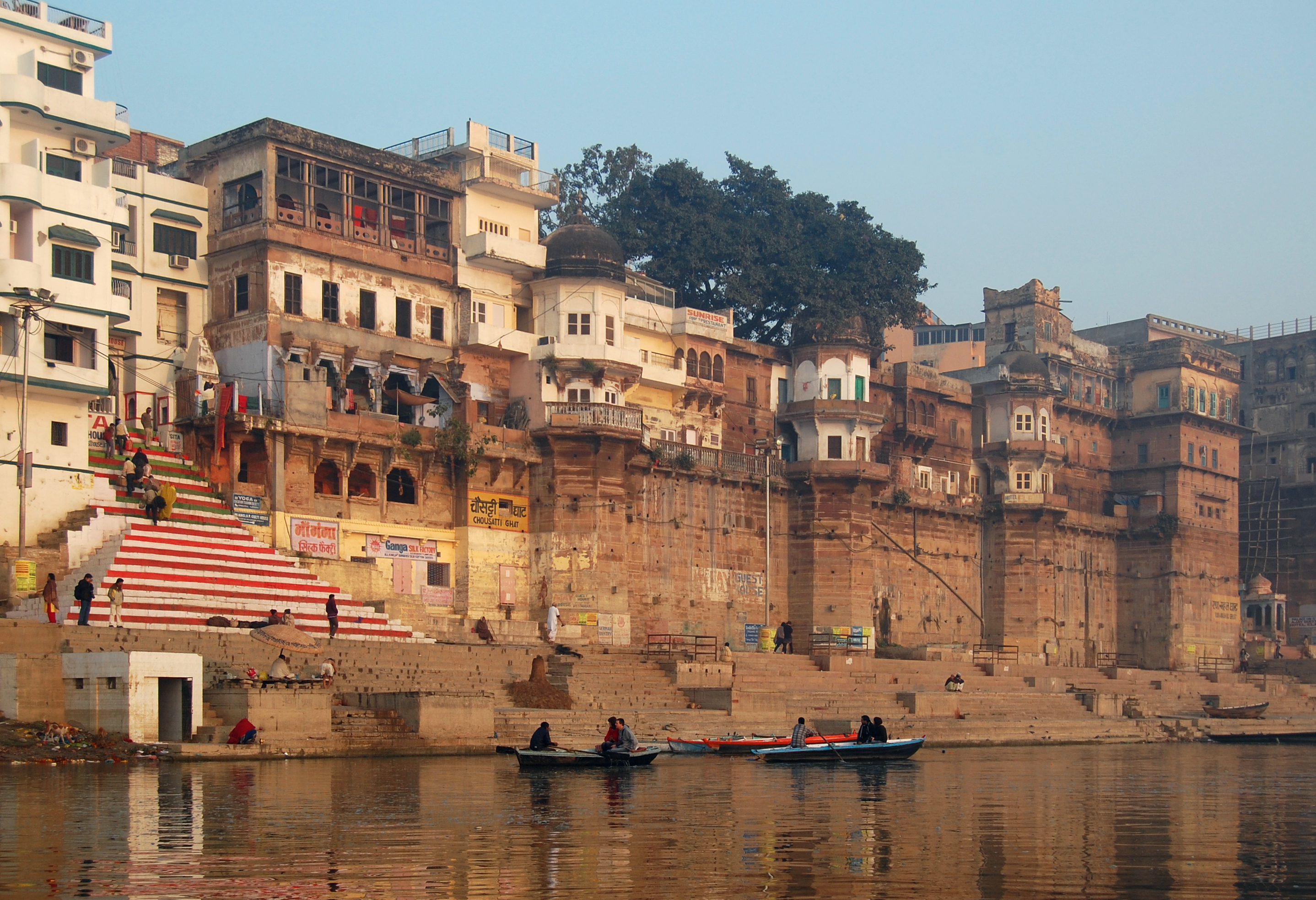 Varansi, India as seen from Ganga river.